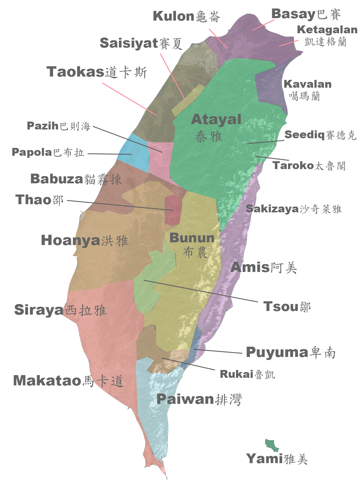 Early distribution of Taiwan Austronesian